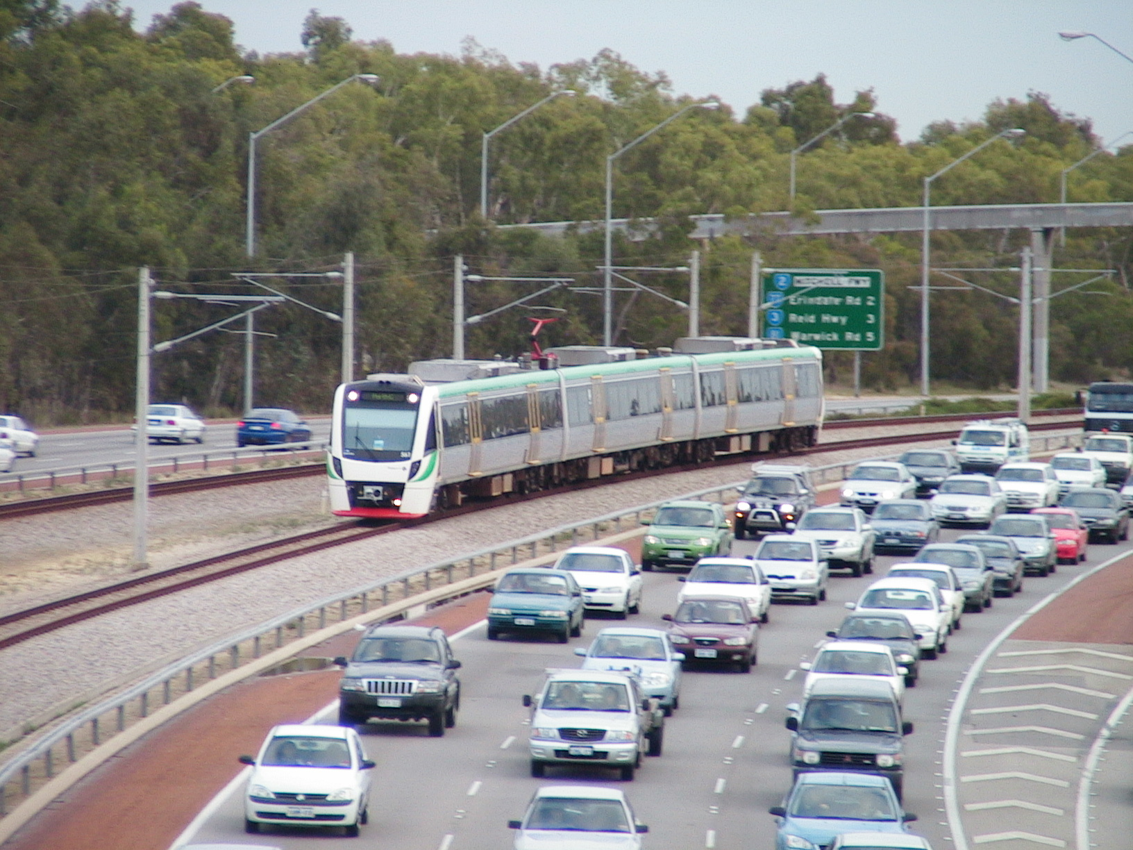 A B series EMU speeds past morning traffic jams on the Mitchell Freeway as it heads to Perth on the Joondalup Line.